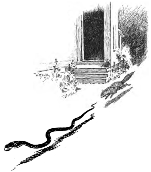 "Nagaina flew down the path, with Rikki-Tikki behind her." Illustration by W. H. Drake.